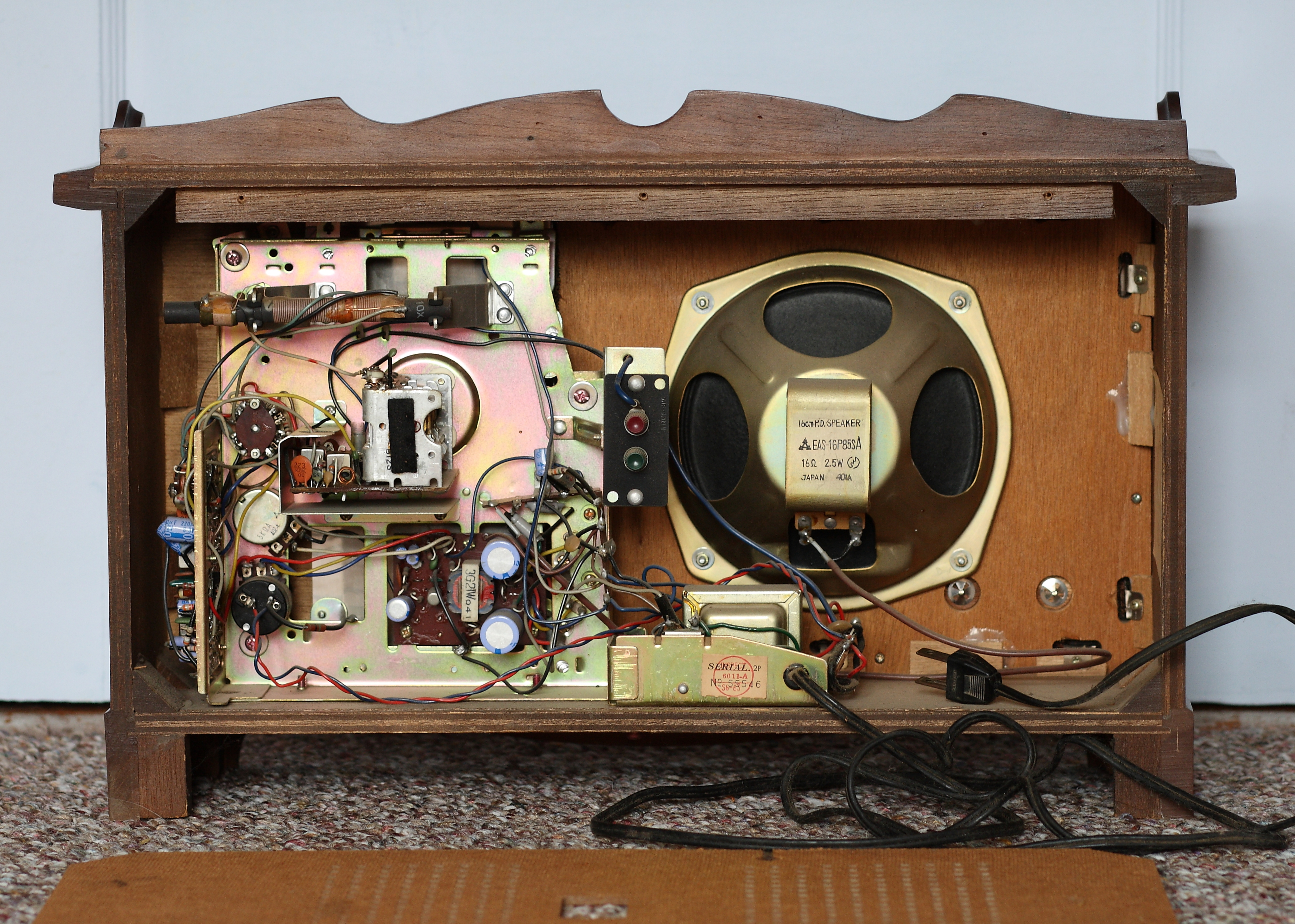 The inside of a Panasonic Model RE-7200 FM-AM 2-band radio receiver, manufactured in Japan by Matsushita Electric Industrial Co., Ltd. According to , it is from around 1975.